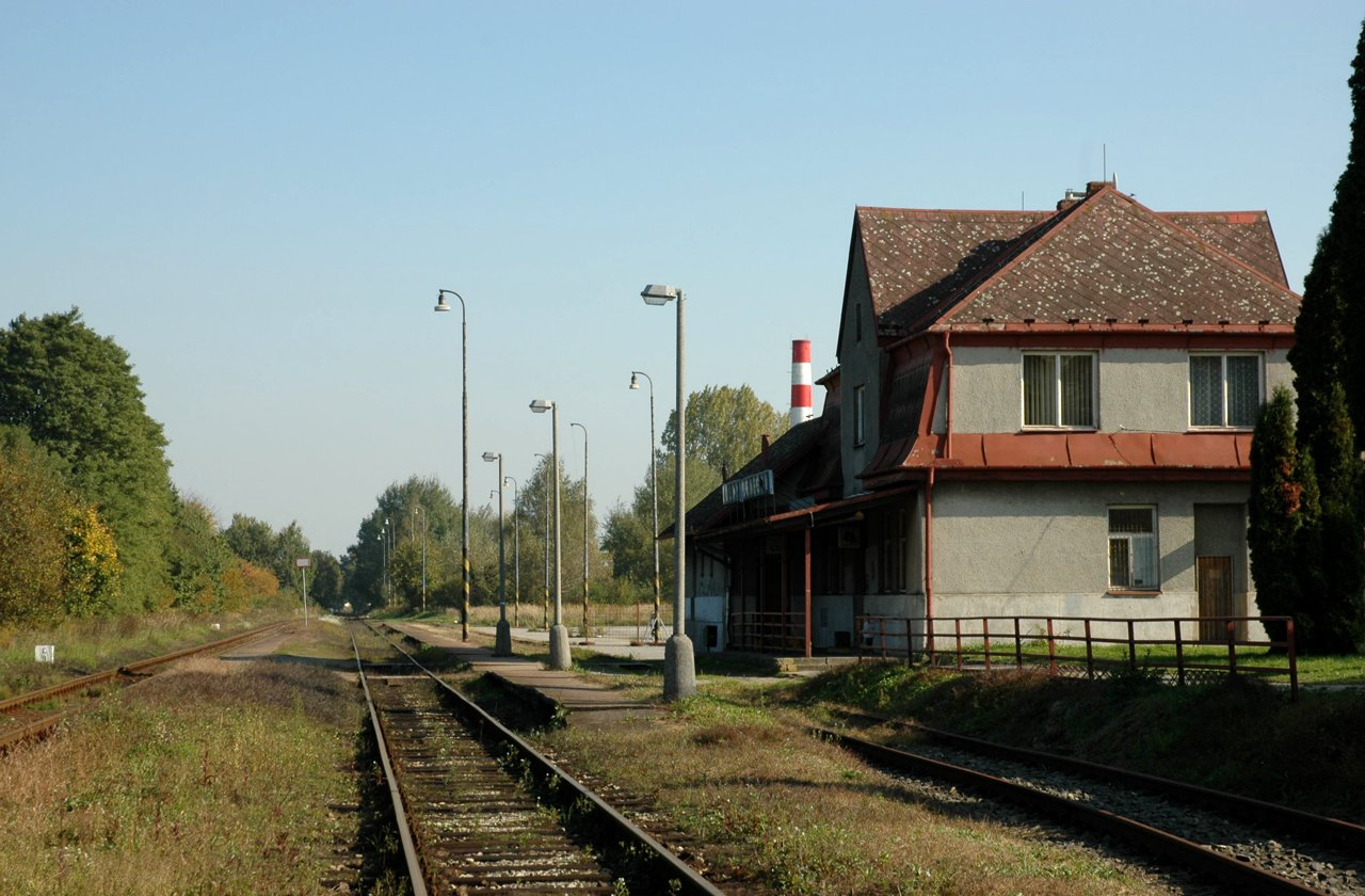 Dolní Benešov railway station, Czech Republic